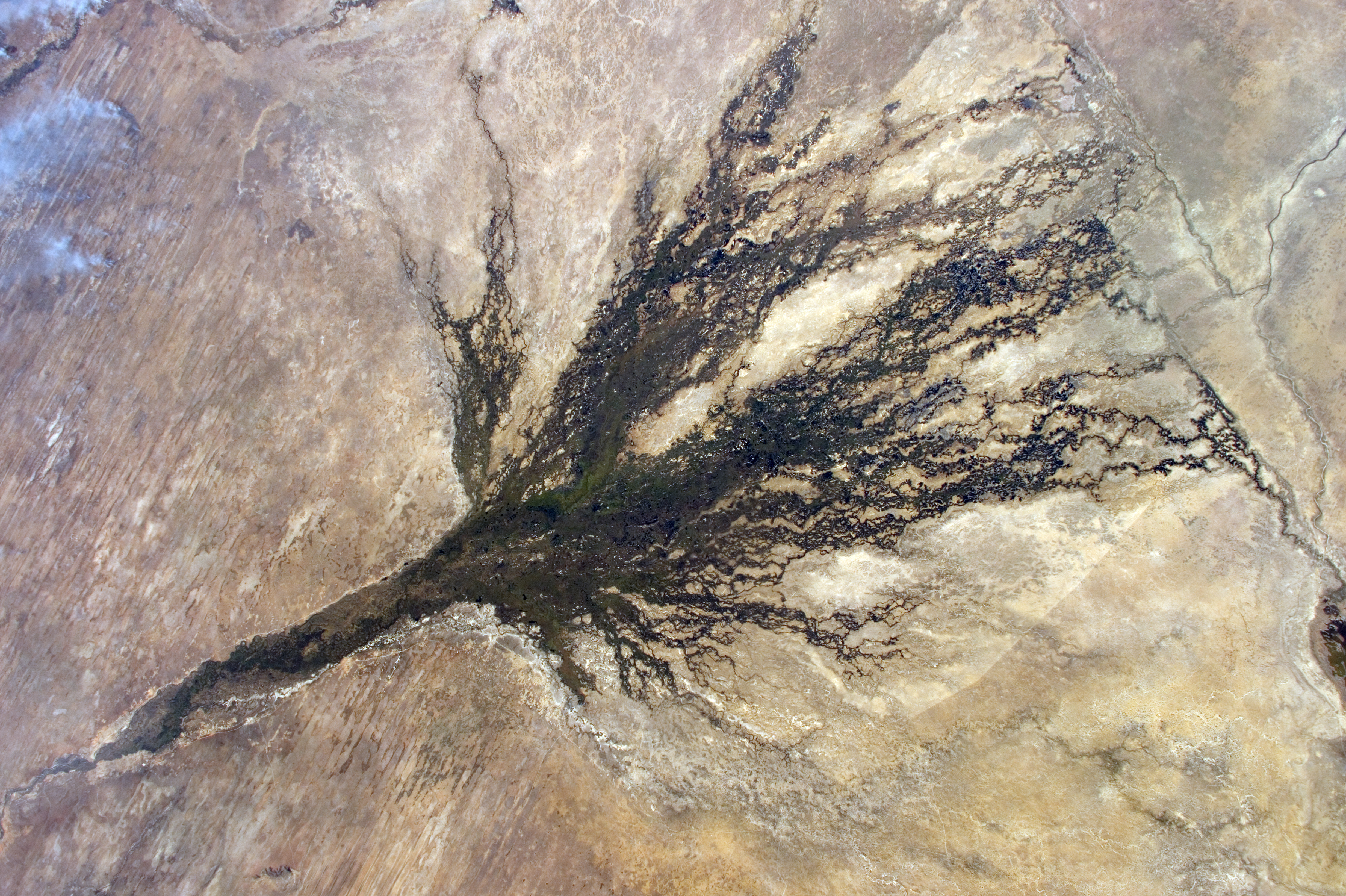 The Okavango Delta in Botswana was photographed Aug. 2 as the space station orbited over the southern part of the African continent.